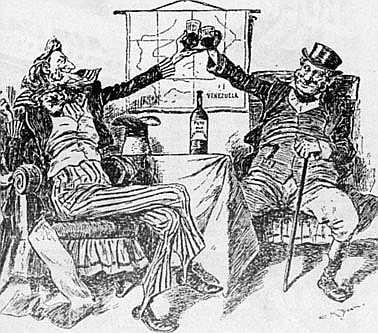 An 1896 cartoon from an American newspaper, following Britain's agreement to go to arbitration. Uncle Sam and John Bull toast in front of a map of Venezuela.